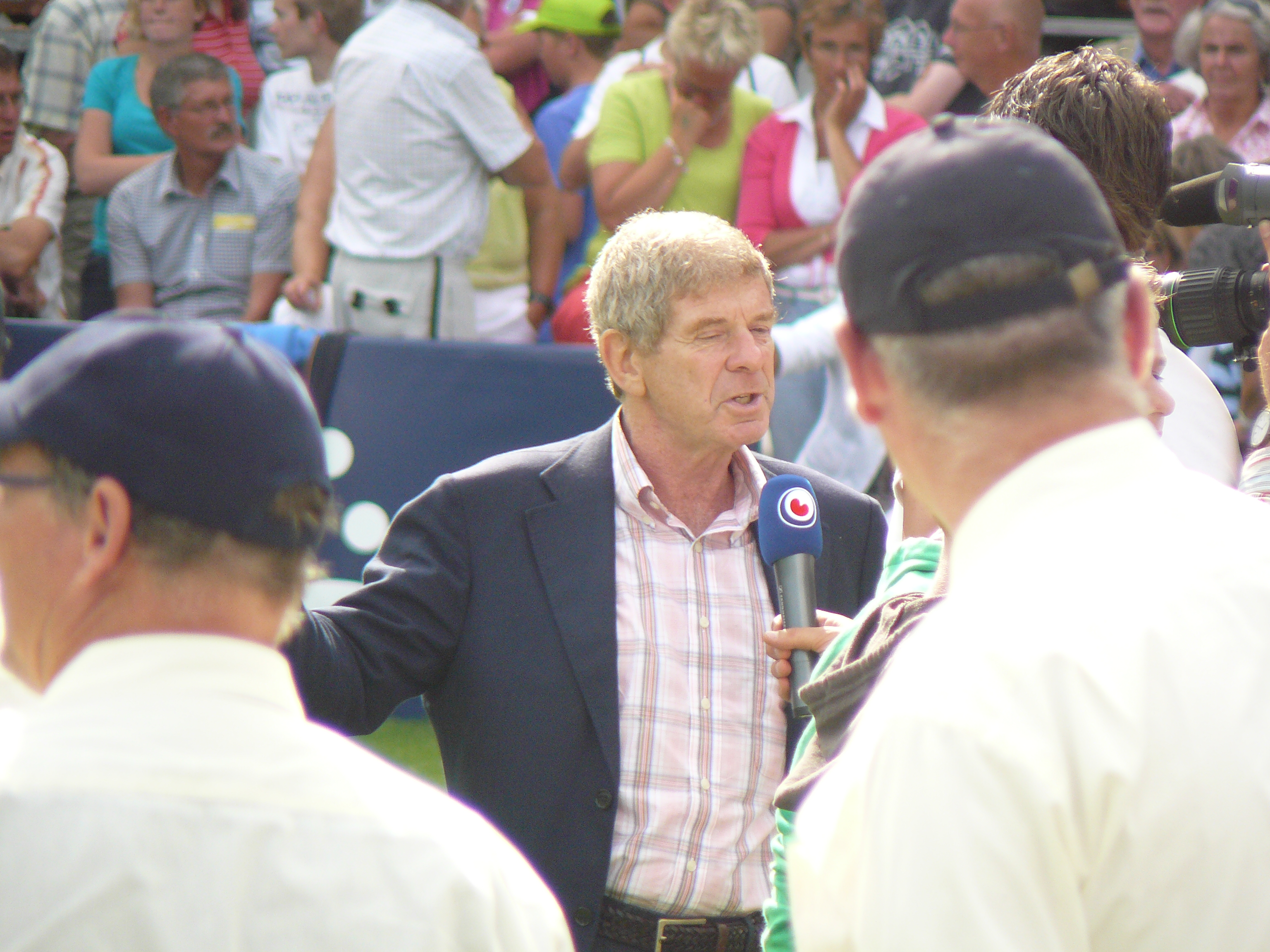 Frits Barend gives an interview for Frisian television during the PC of 2009